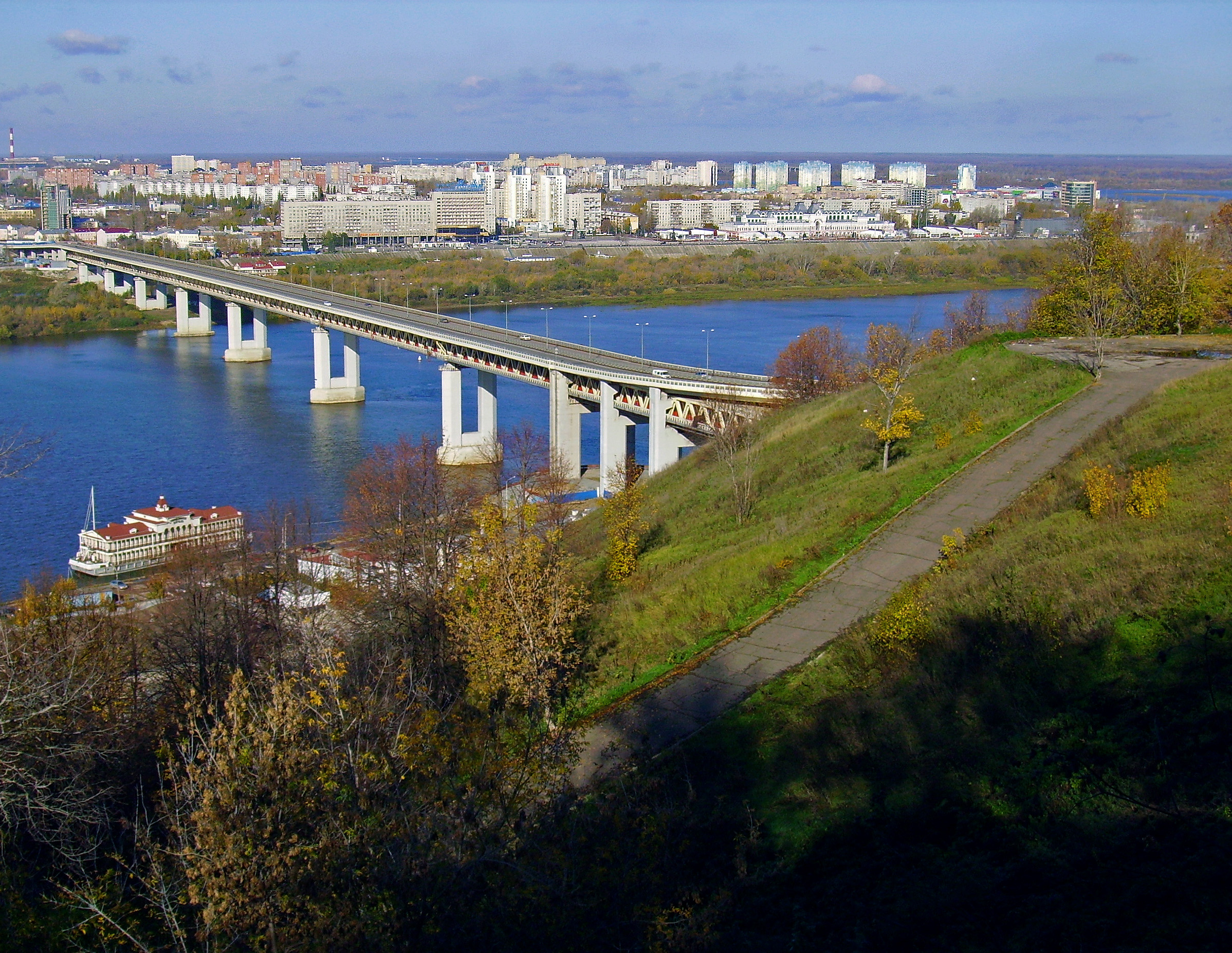 Nizhny Novgorod. Autumn view to Metro Bridge